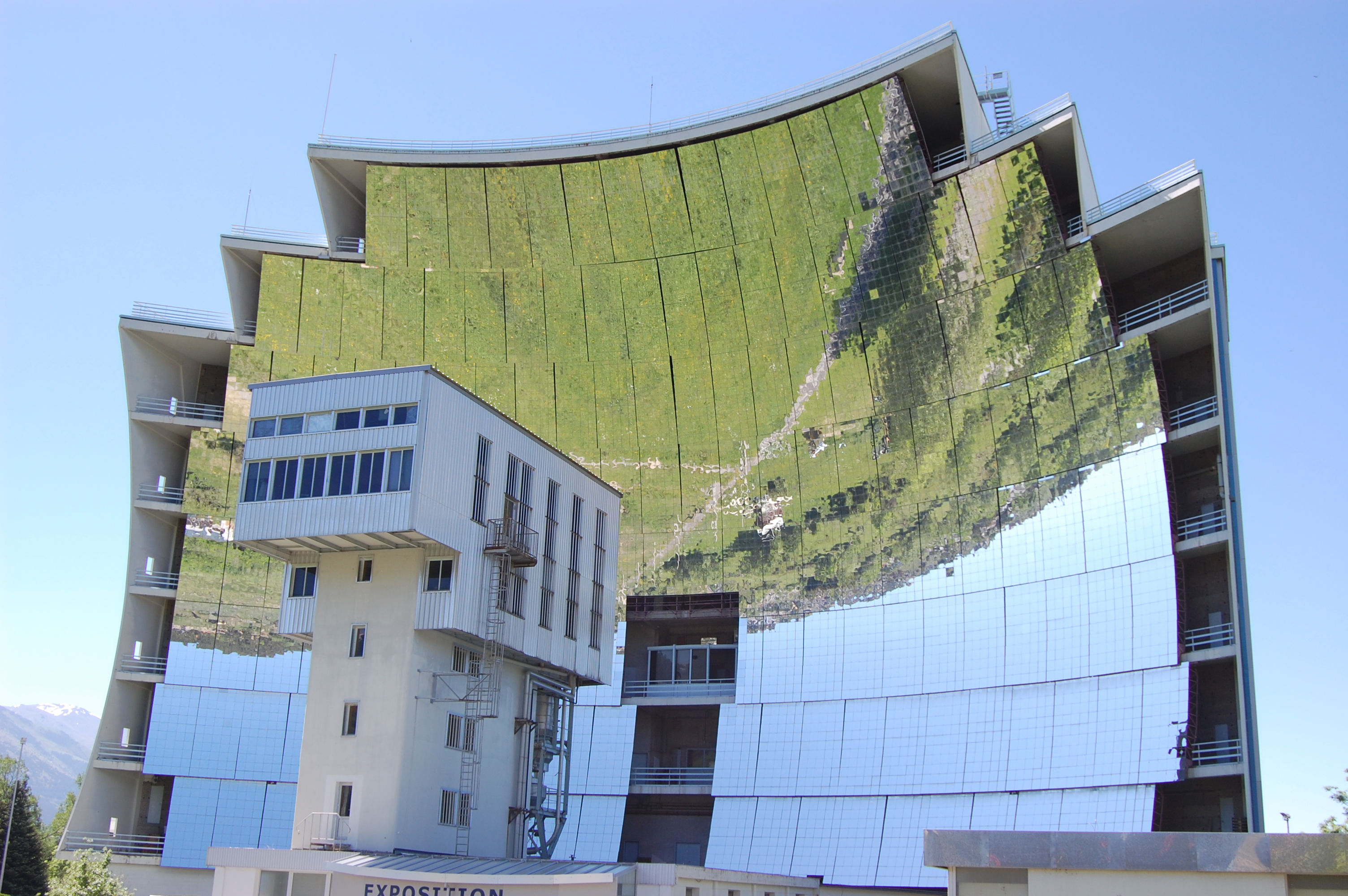 Odeillo Solar Furnace. CNRS laboratory.